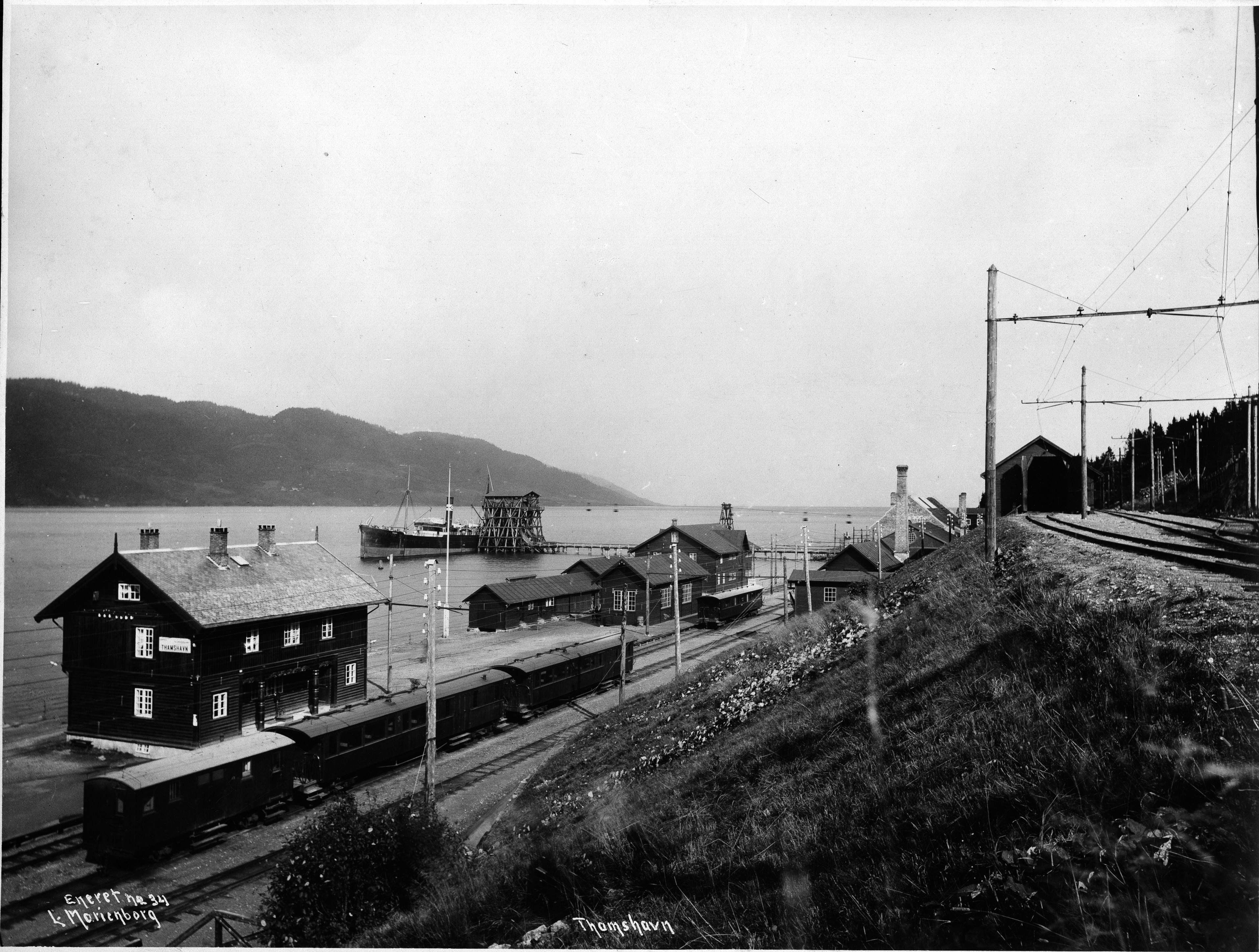 Thamshavn station in Orkdal, Norway